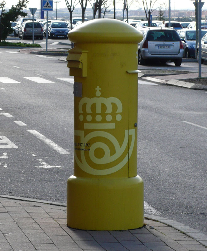 Correos mailbox in Madrid-Xanadu Mall.